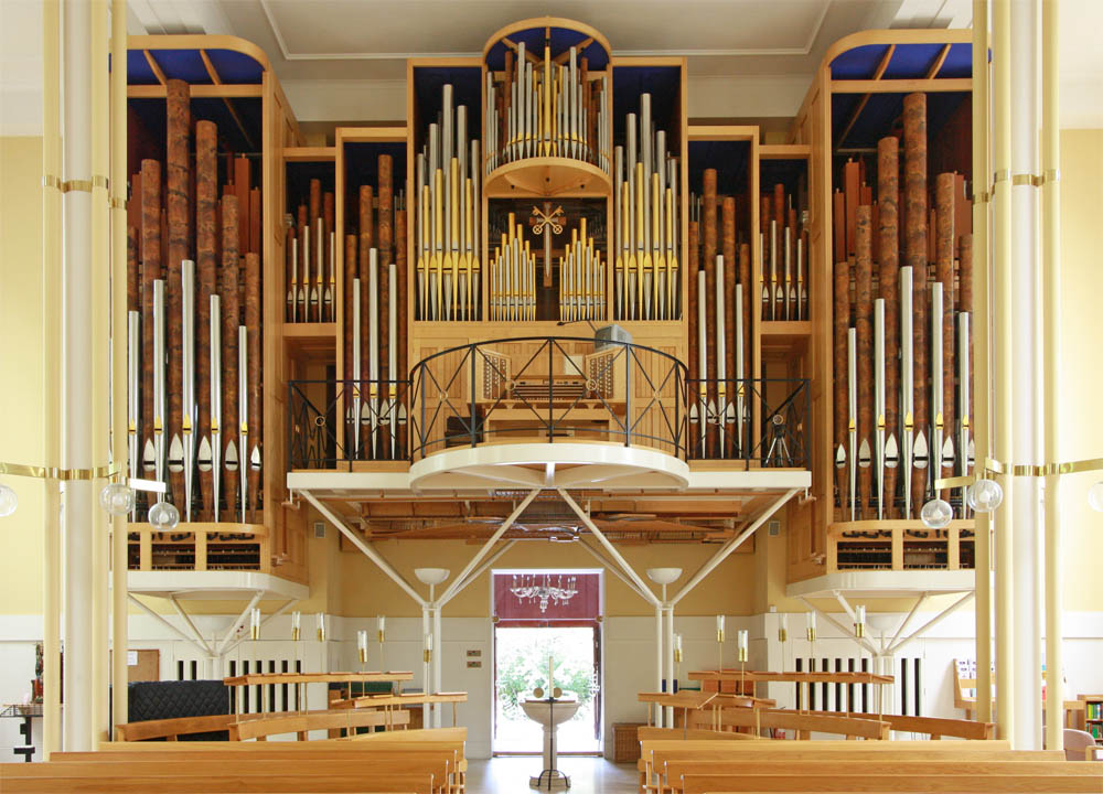 St Peter, Eaton Square, London SW1 - Organ, near to Westminster, Great Britain.